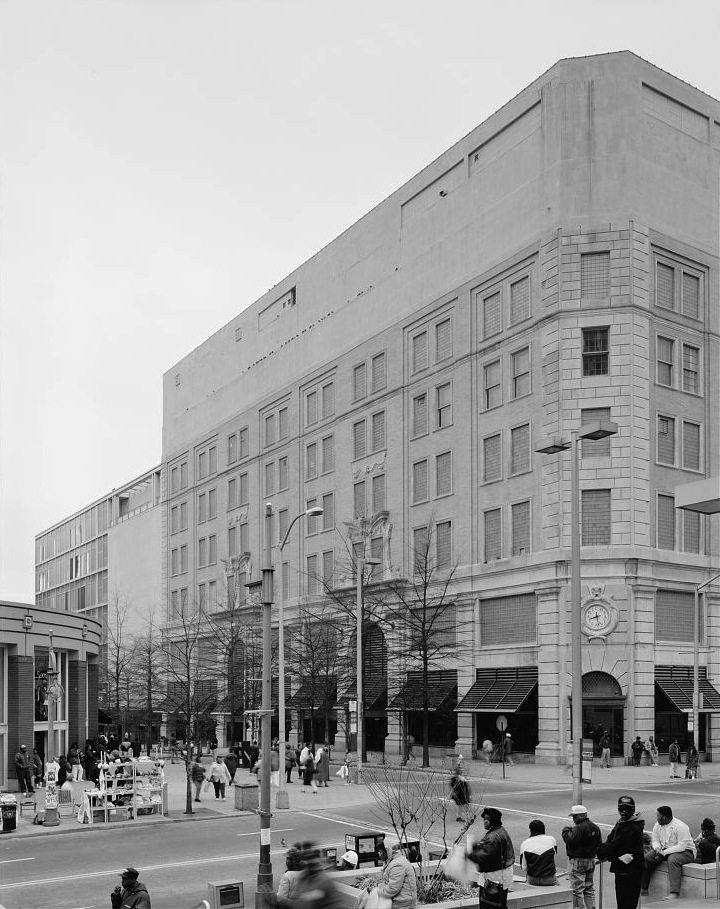 View of east side of 1924 store, from northeast looking southwest. - Rich's Downtown Department Store, 45 Broad Street, Atlanta